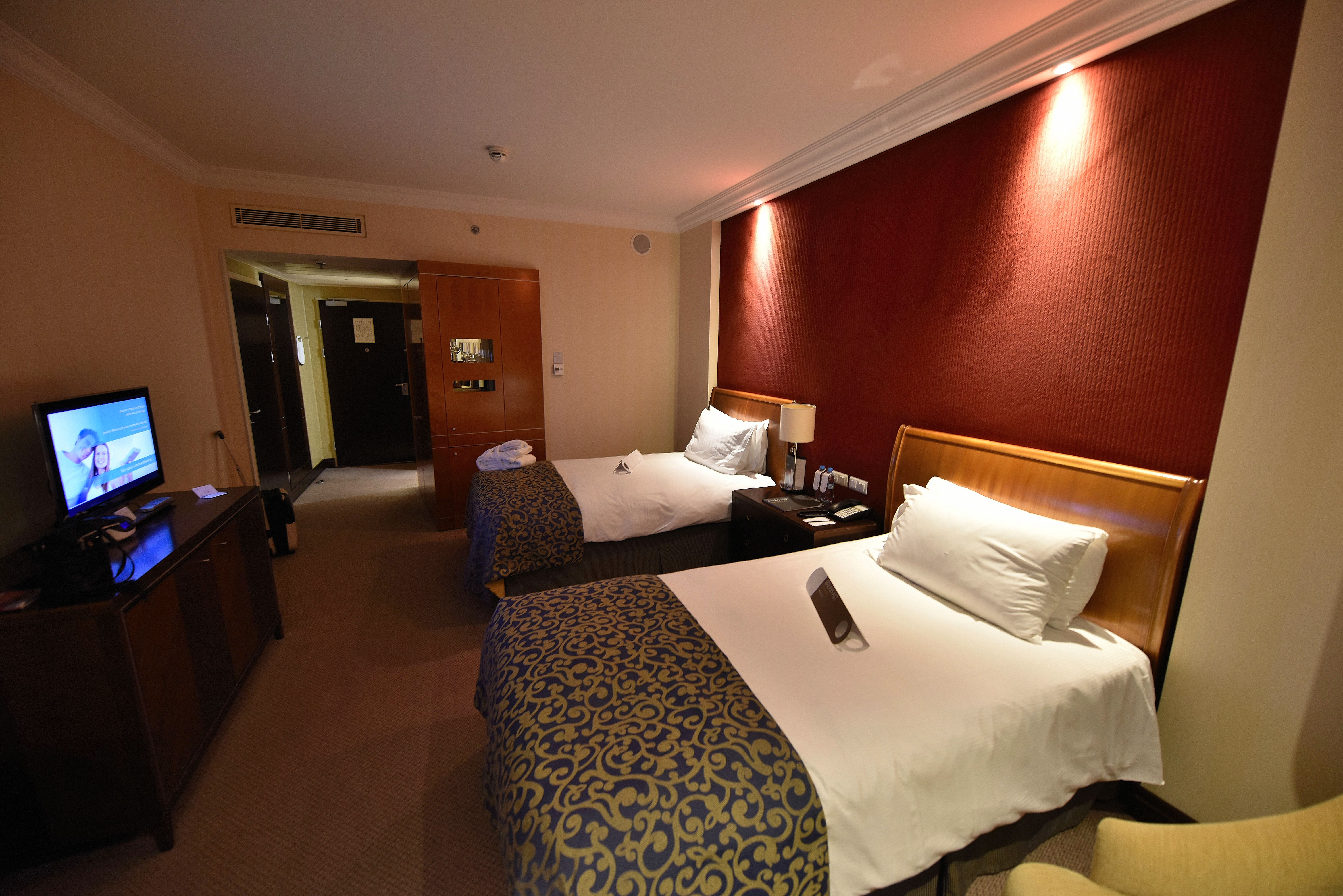 A room at InterContinental Warsaw Hotel